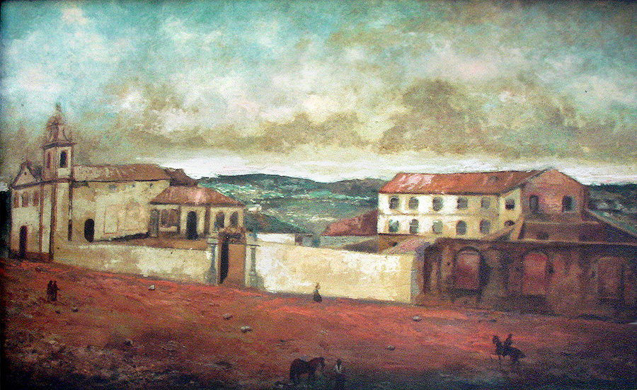 Santa Casa de Misericórdia of Porto Alegre. Mid 19th century. Unknown author, oil on canvas. To the left the old chapel Nosso Senhor dos Passos. Collection of Museum Júlio de Castilhos